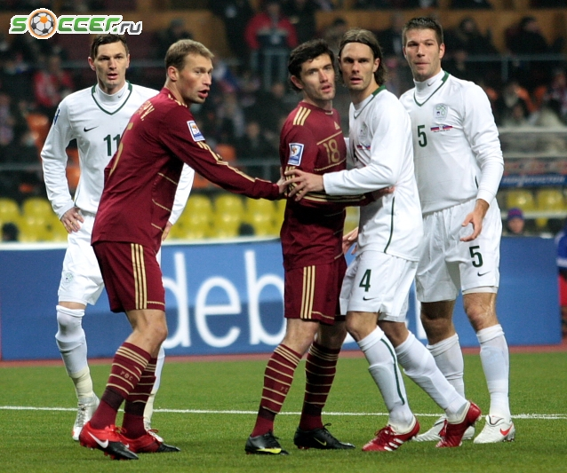 Russia vs Slovenia World Cup 2010 Qualification, 2009-11-14